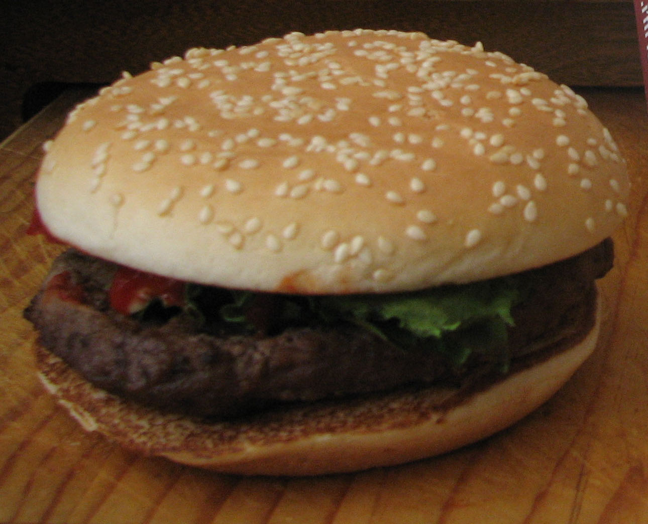 Big N' Tasty from McDonalds, USA